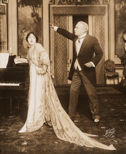 Florence Reed & Malcom Williams in the Broadway's play The Master of the House - publicity still (cropped)